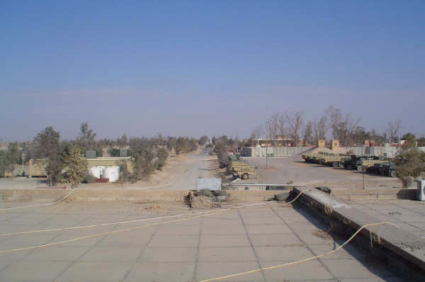 Image depicting FOB Speicher, IRAQ.